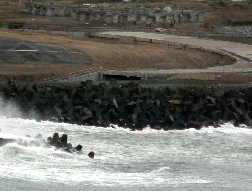 Taken from Houghton Bay, Wellington, New Zealand, 23 December 2006.